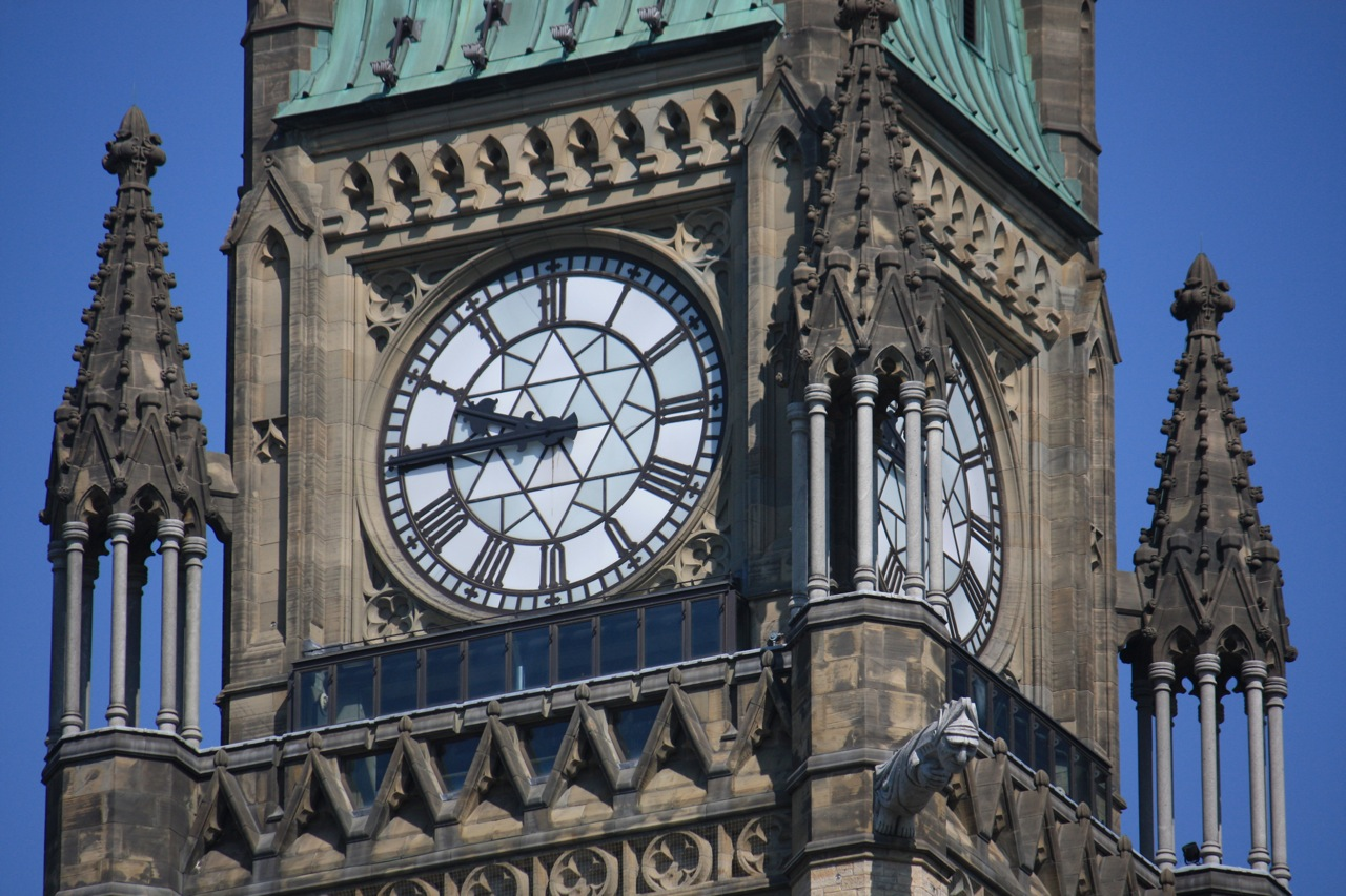 The Centre Block of Parliament, Ottawa, Ont. The tower bells were all cast and tuned by Gillett & Johnston in Croydon, England, while the mechanical workings of the clock were manufactured by the Verdin Company, and are set by the National Research Council Time Signal.